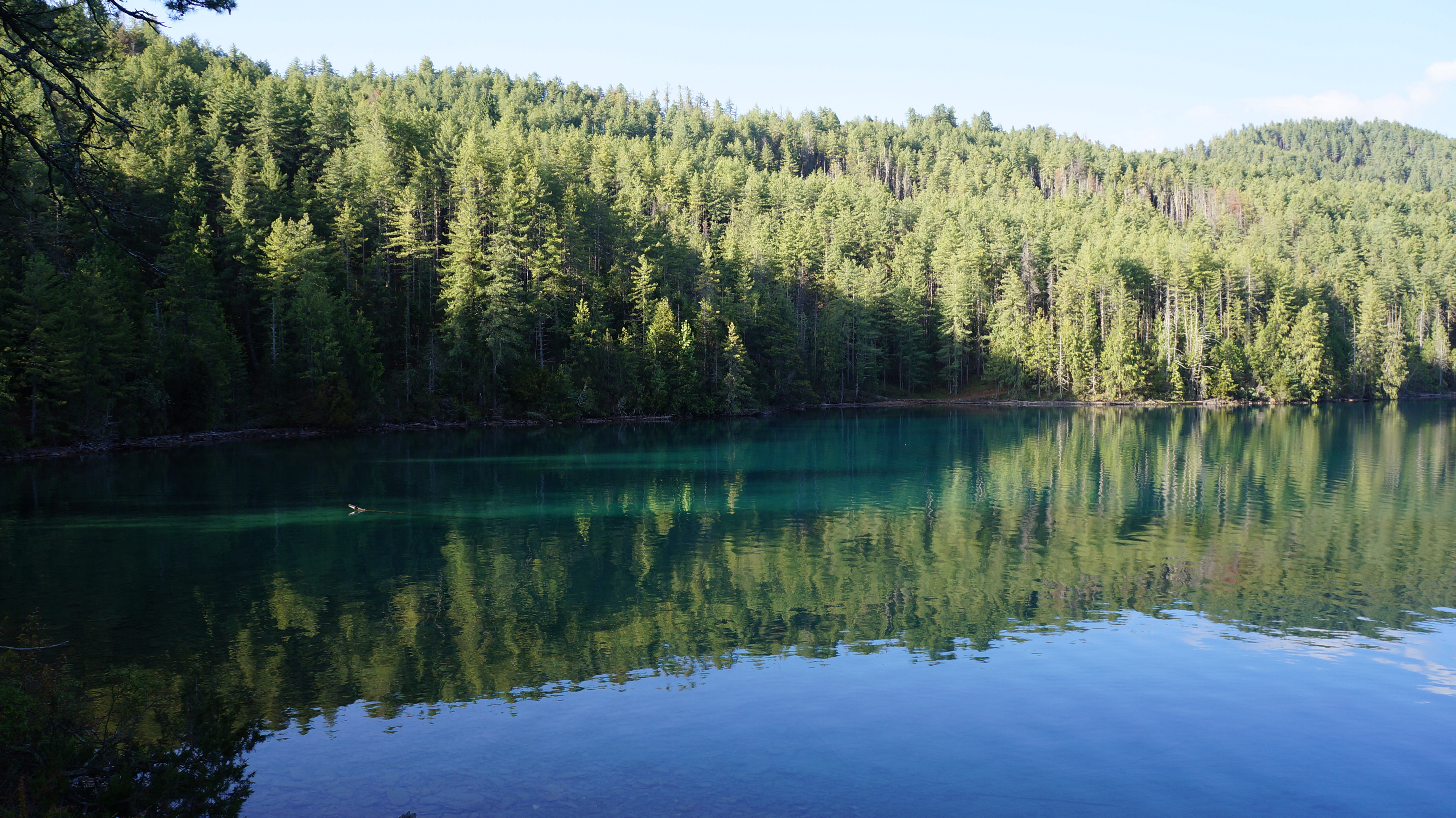 A view of the Northern corner of Rara Lake during early morning.